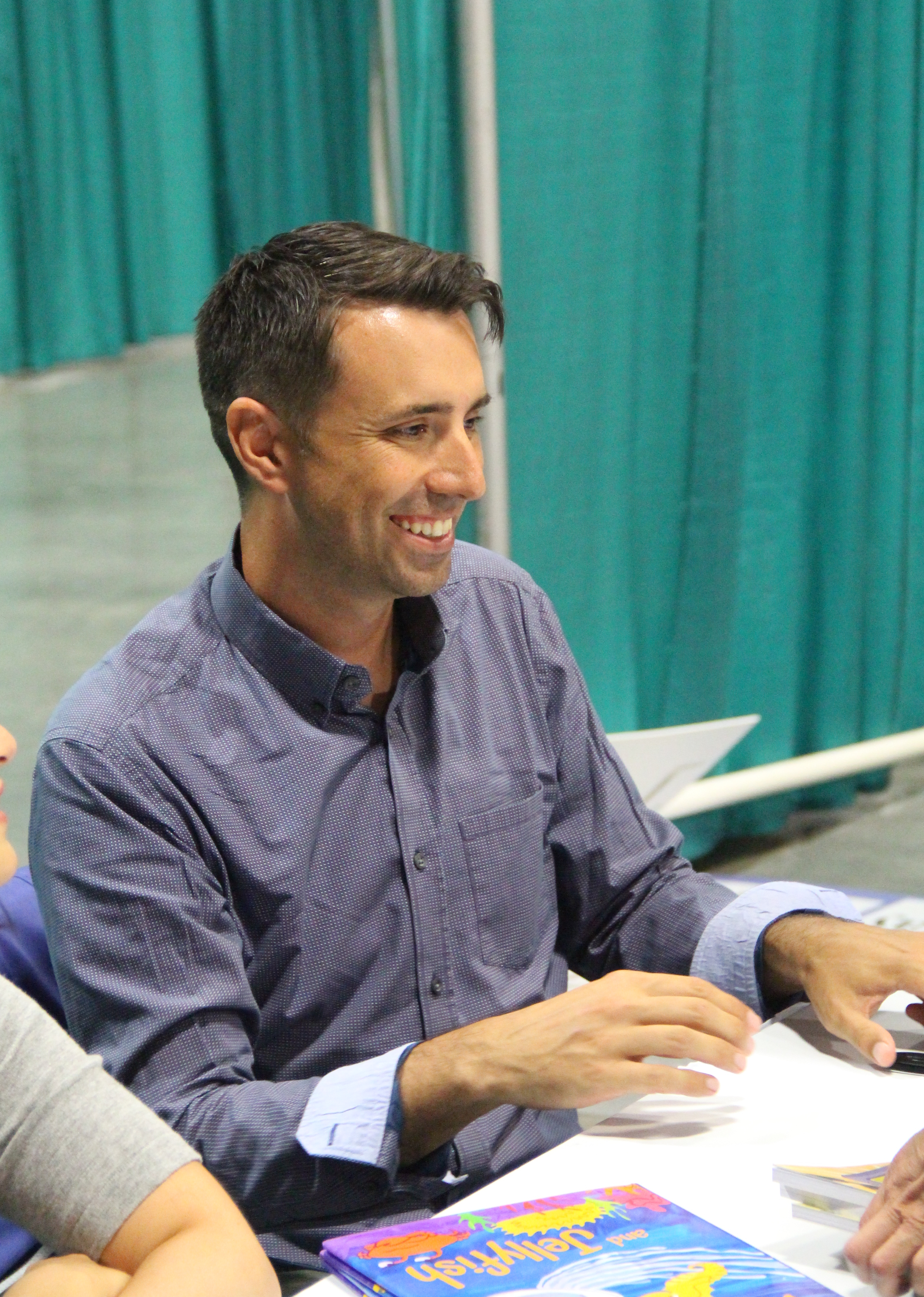 2015 Library of Congress National Book Festival September 5, 2015 Washington, DC